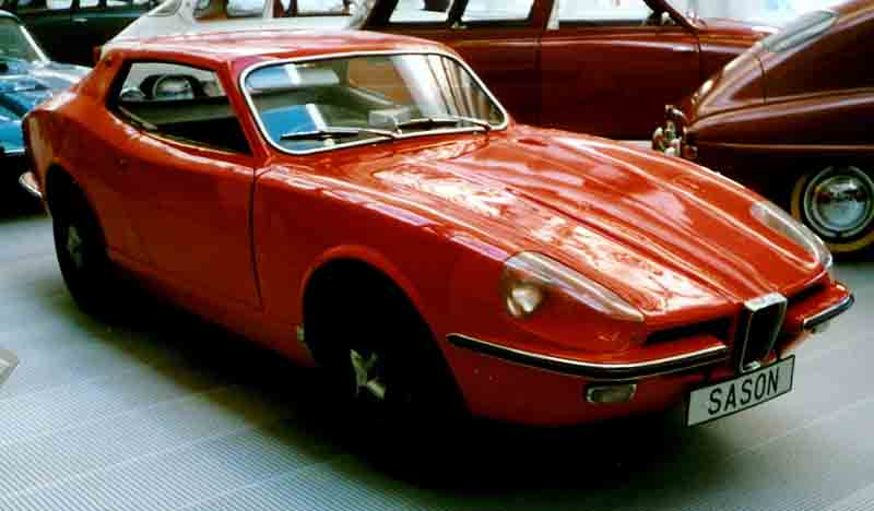 SAAB Catherina